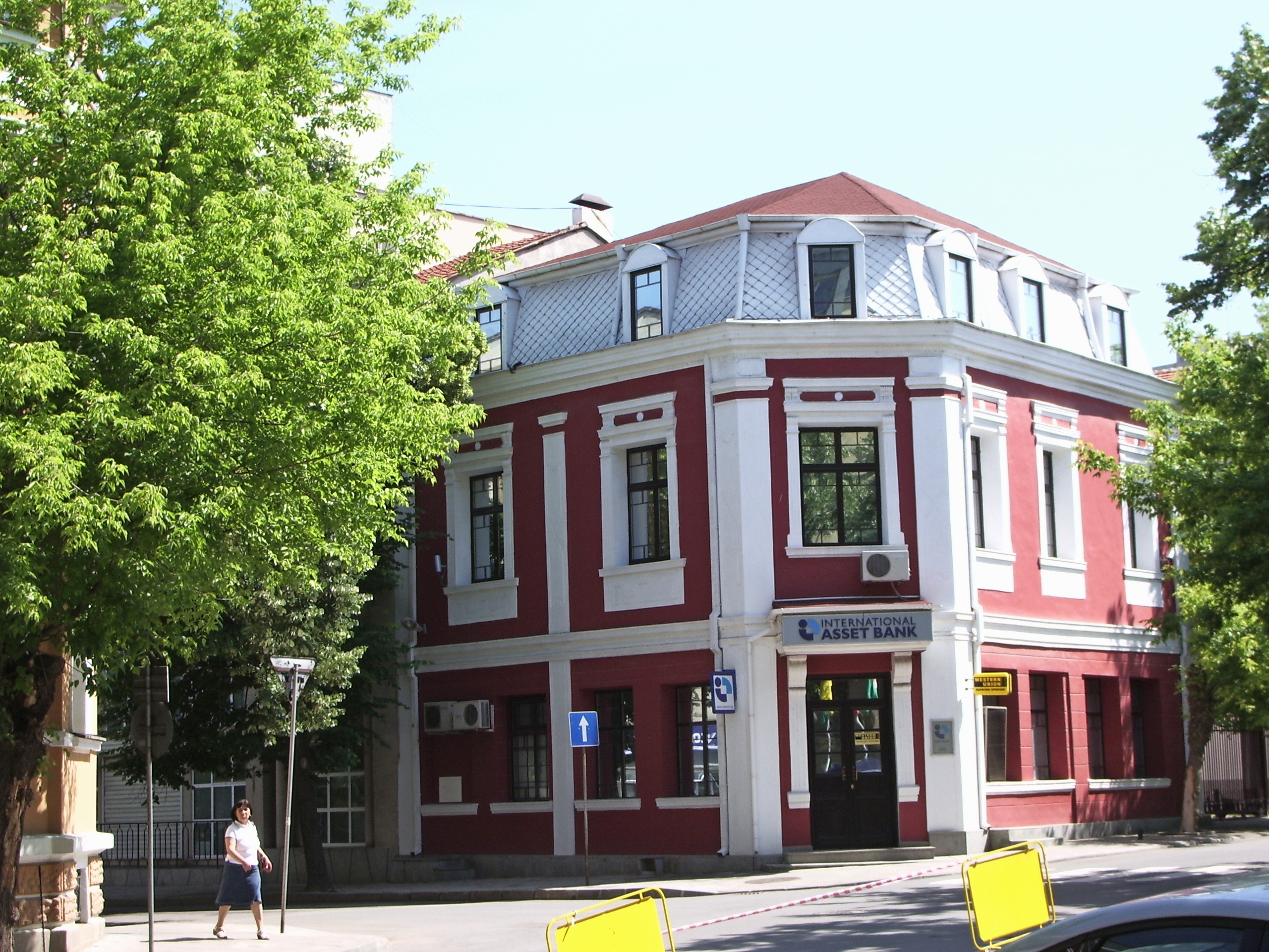 Yambol, Bulgaria - Old building on "George Papazov" str. / "Alexander Stamboliiski" str.